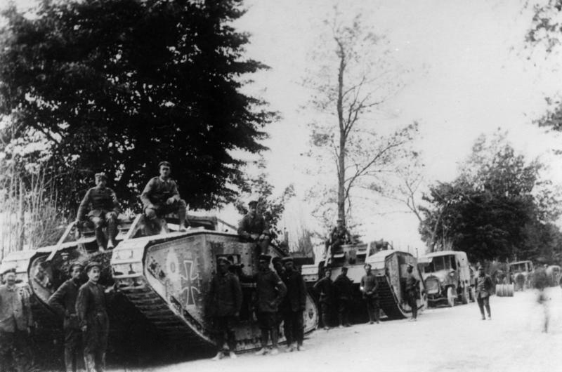 German tank corps in France (between Aisne & Marne) in 1918 (July 15th - 17th) (Second Battle of the Marne). They use captured British Mark IV-tanks.